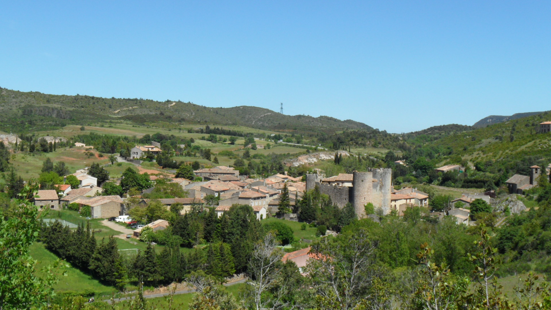 View of Villerouge-Termenes, Aude, France